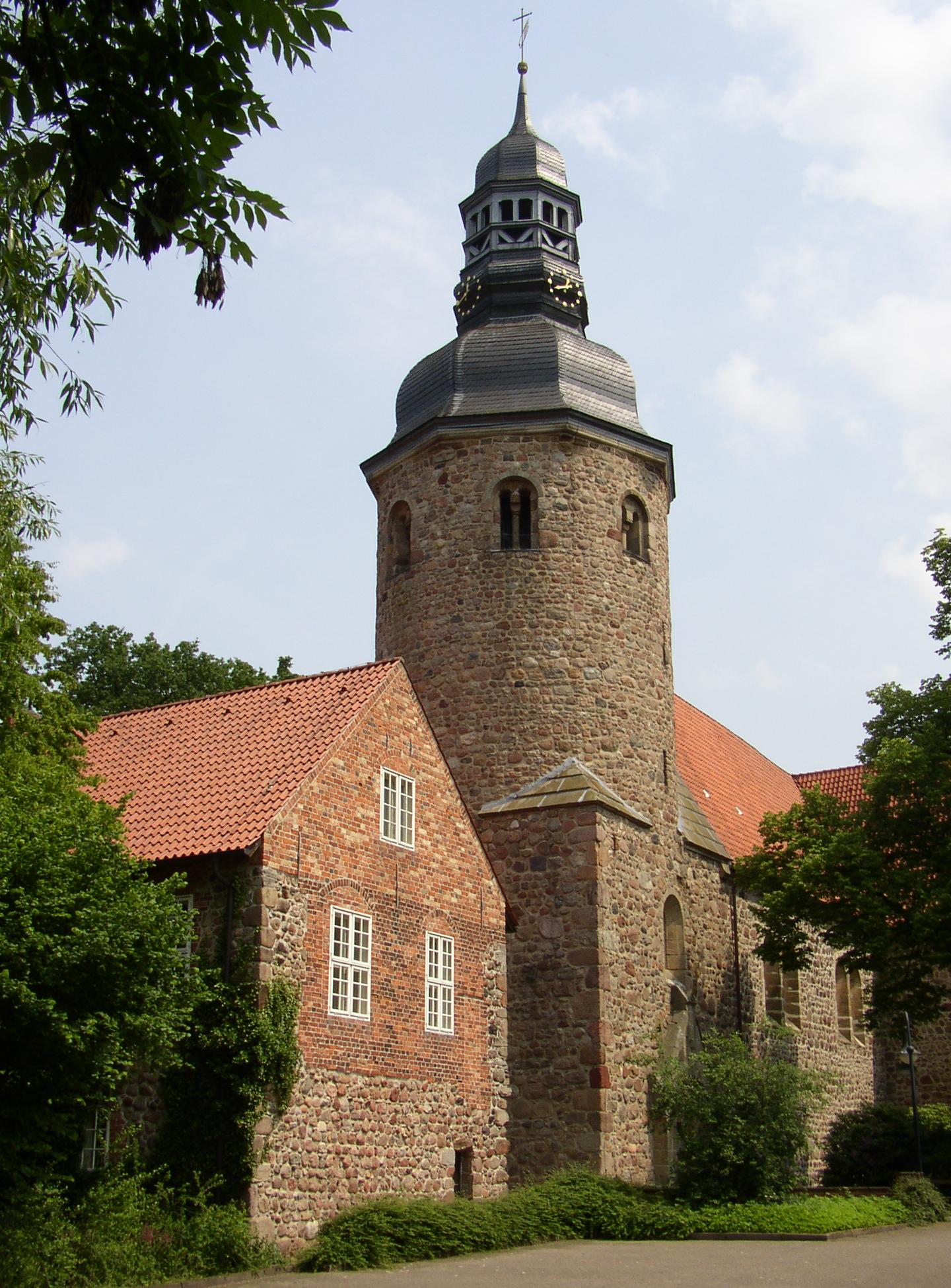 Church in Zeven in Lower Saxony, Germany